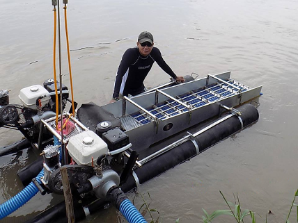 Professional gold miner using an advanced dredge system. Sumatra. Indonesia. May 2015.